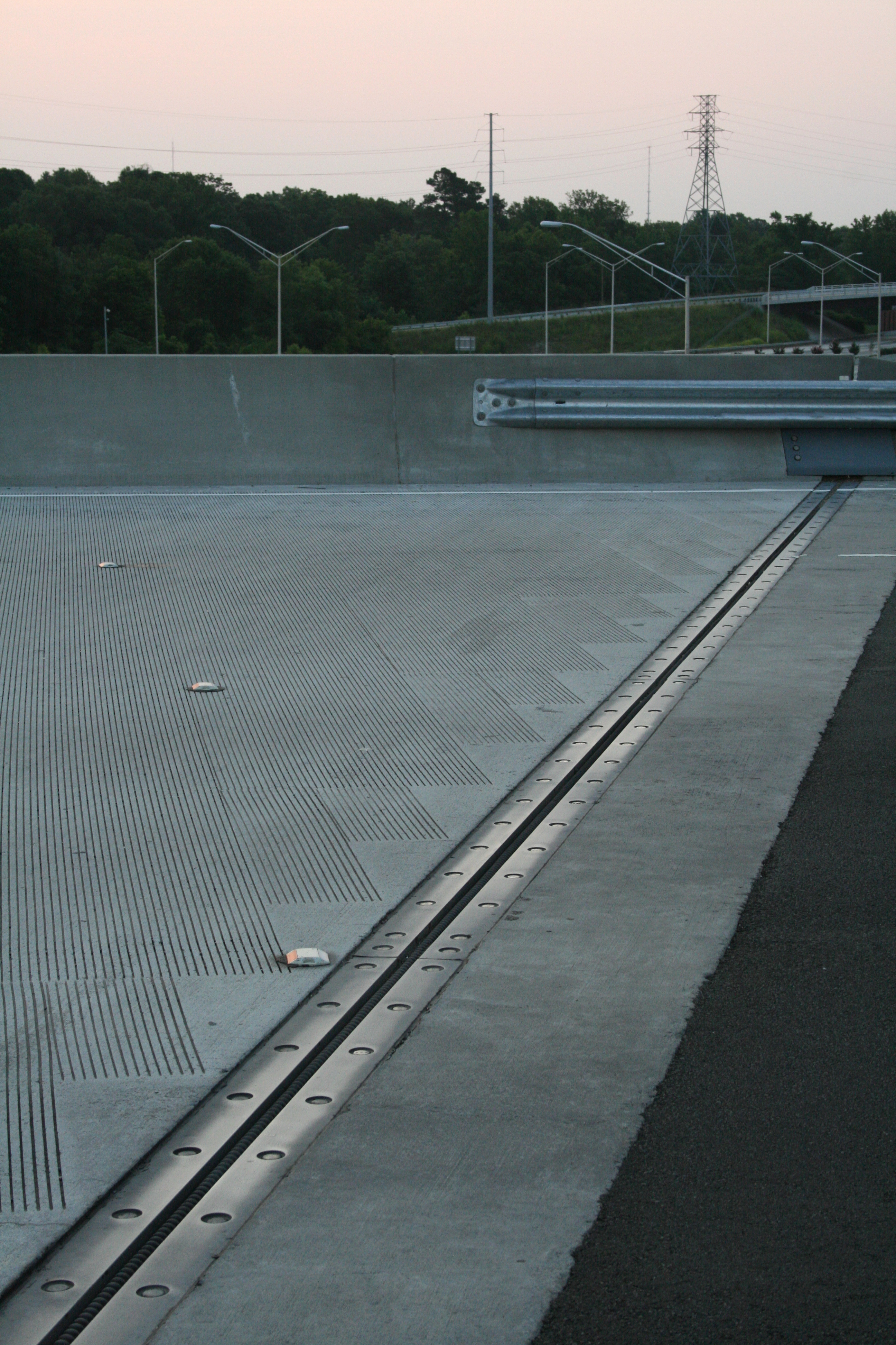 Bridge joint on the Duke St bridge over Interstate 85 in Durham, North Carolina.